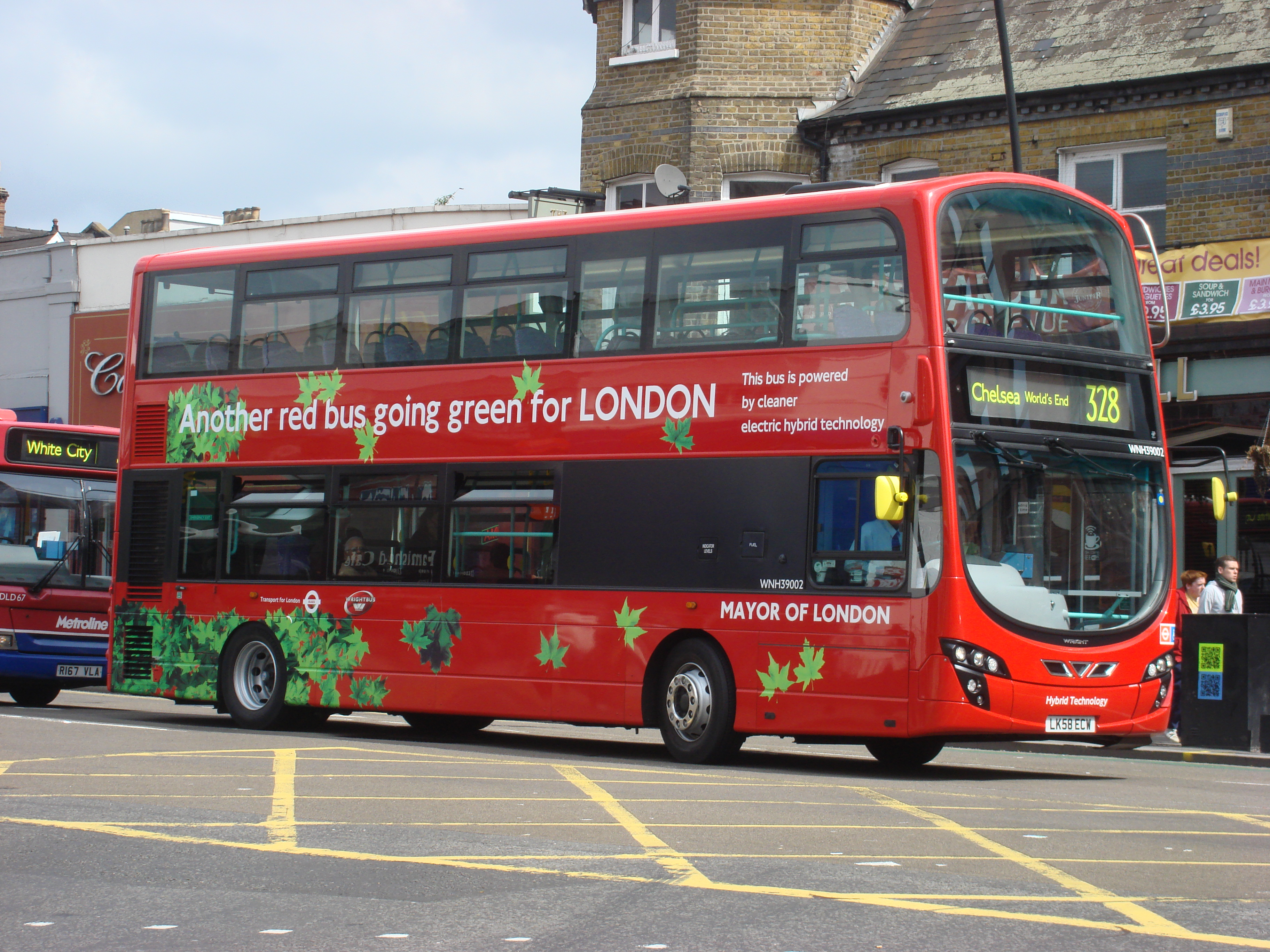 First London WNH39002 (LK58 ECW), a Wright Gemini 2 HEV hybrid, on London Buses route 328.